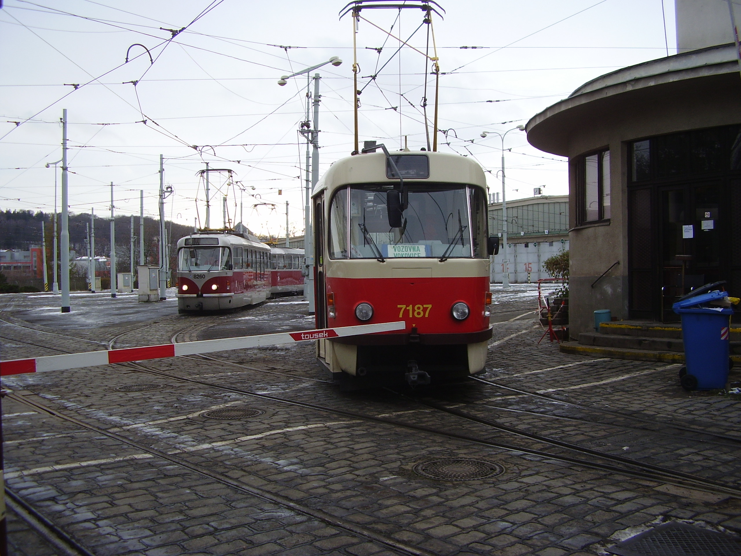 Tram depot Vokovice with Tatra T3, Prague 6